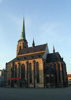 Building of Church of St. Bartholomew (since 1993 a cathedral) in Plzeň, Czech Republic.